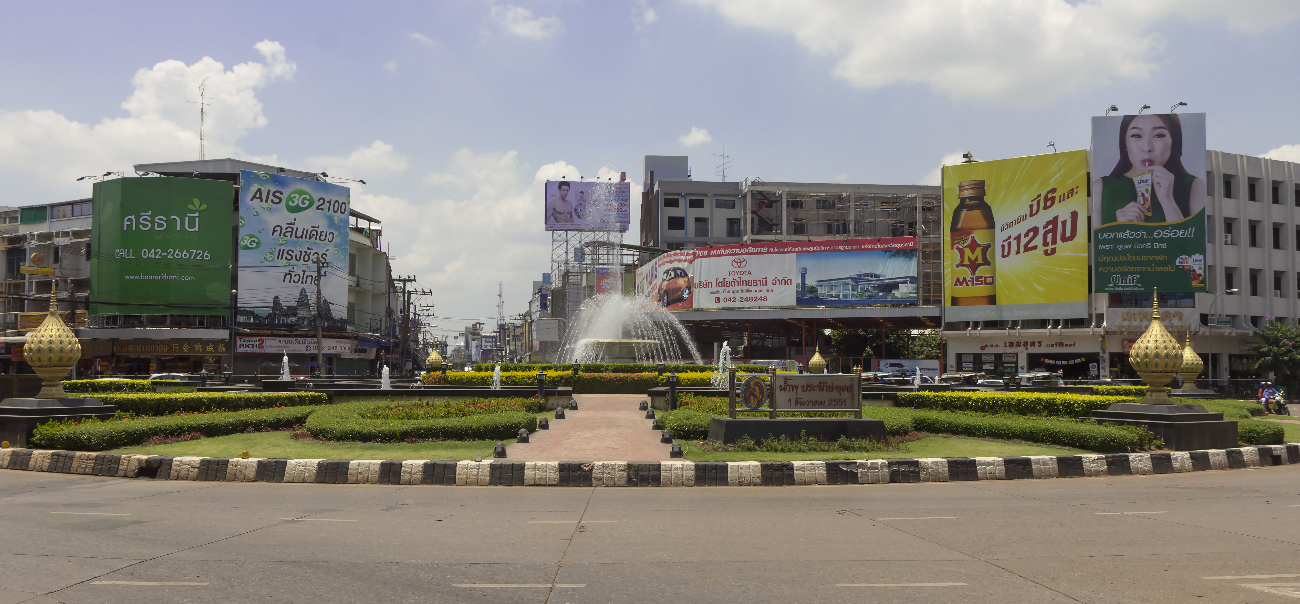 Fountain at the Roundabaout Pho Si Road and Udon Dutsadi Road